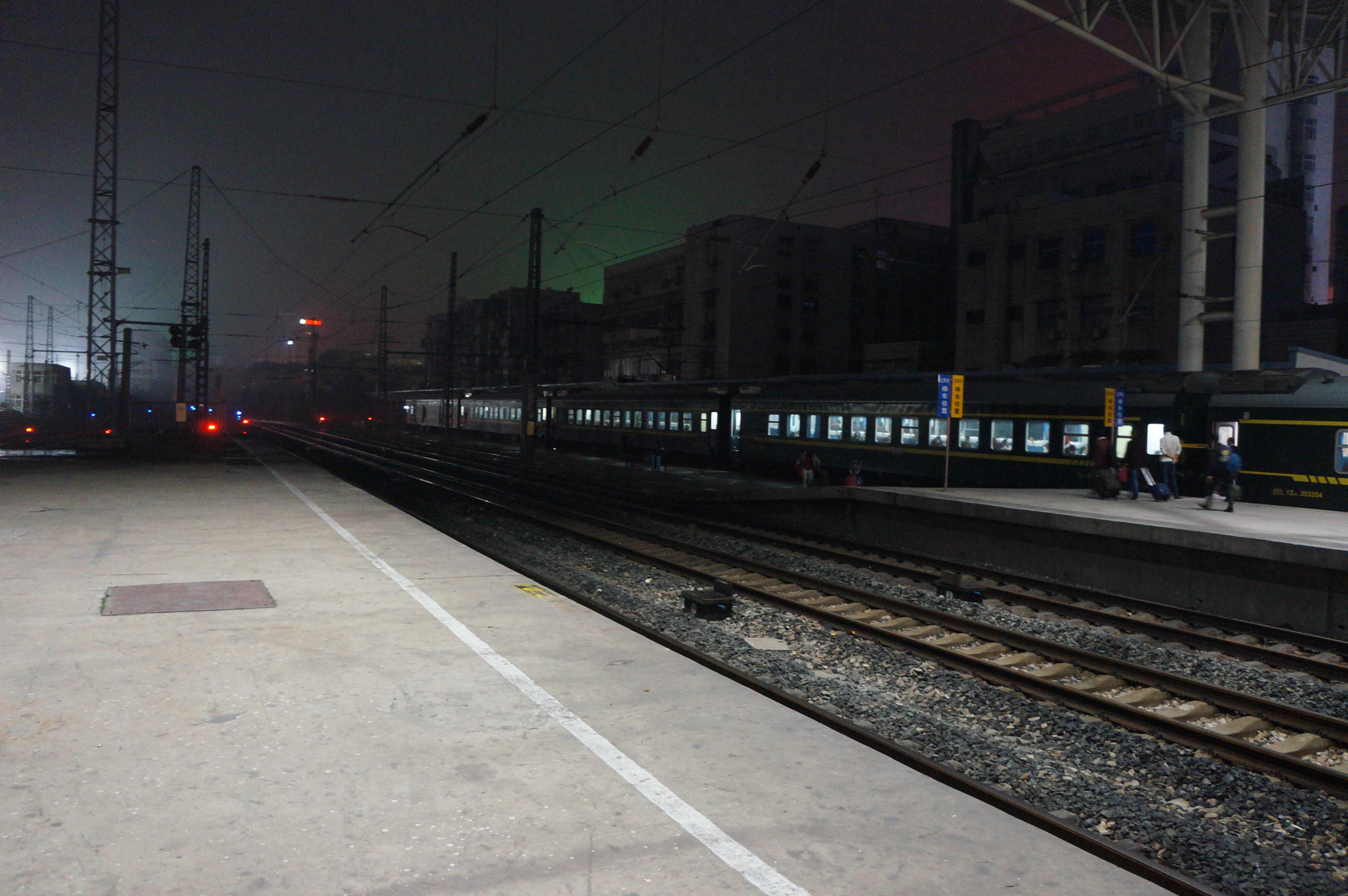 201812 Coaches of K375 at Bengbu Station